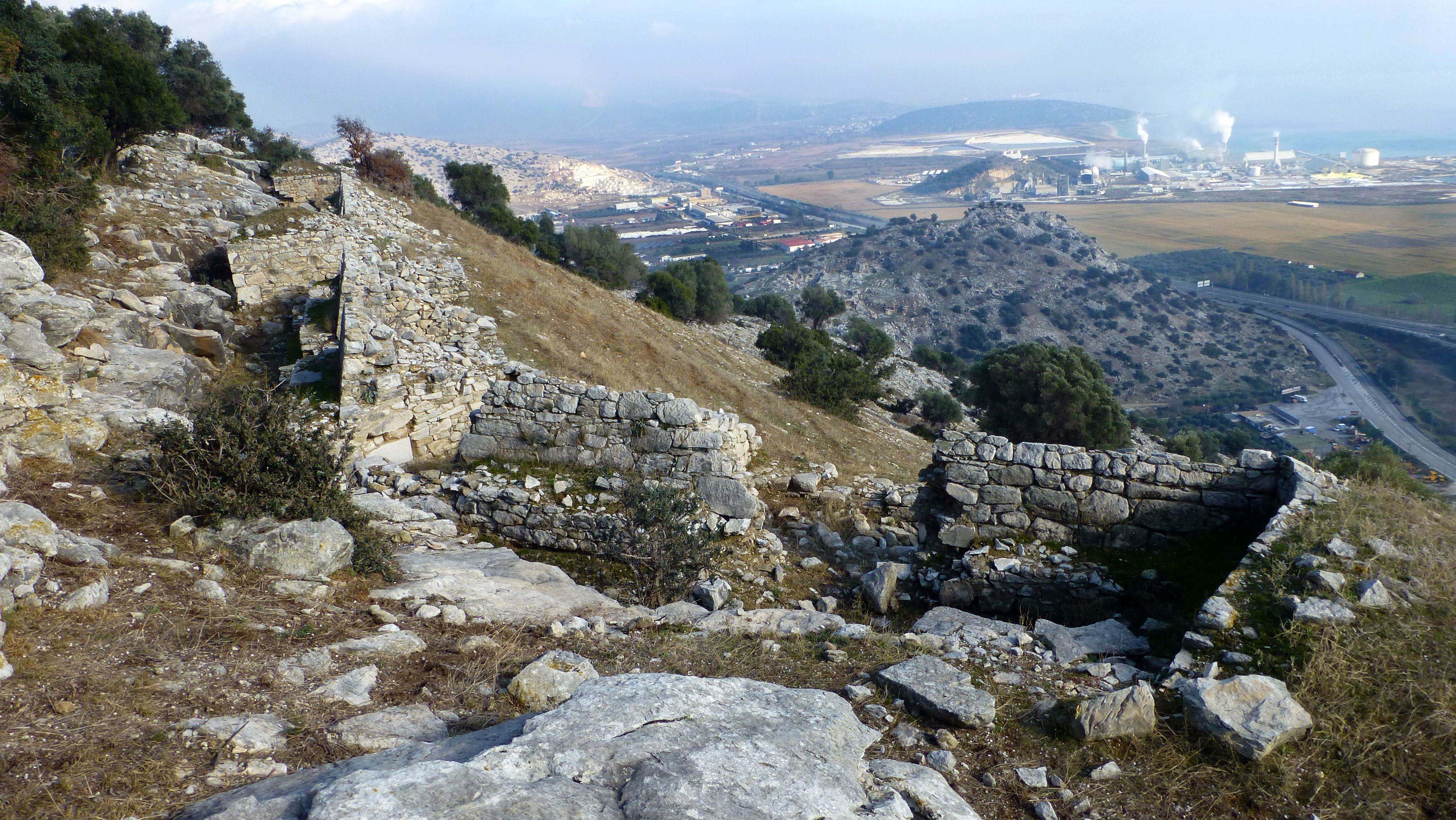 Fortress Halkero, Kavala